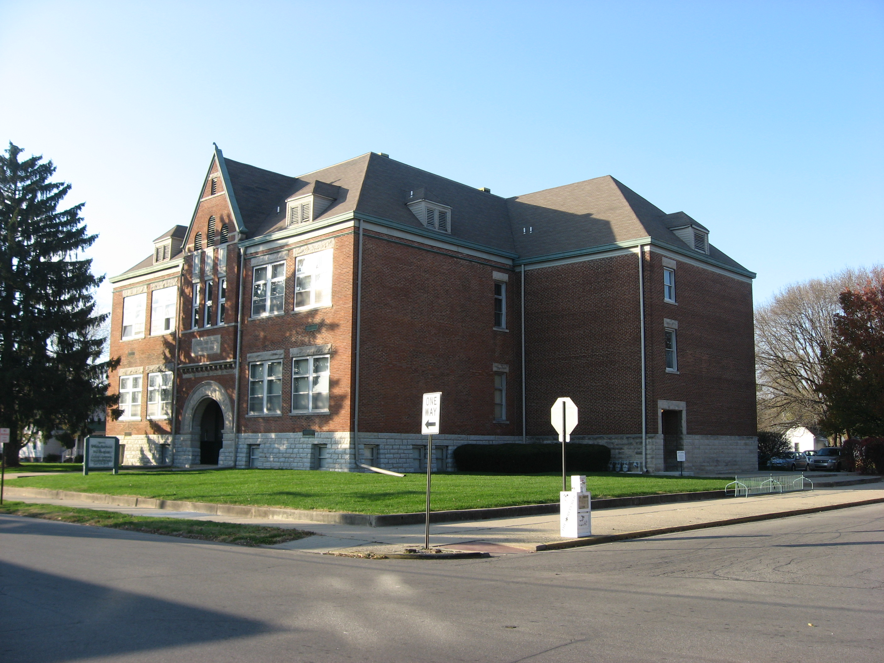 Front and eastern side of the former McKinley School, located at the intersection of Seventeenth Street and Home Avenue in Columbus, Indiana, United States. Built in 1892, it is listed on the National Register of Historic Places.